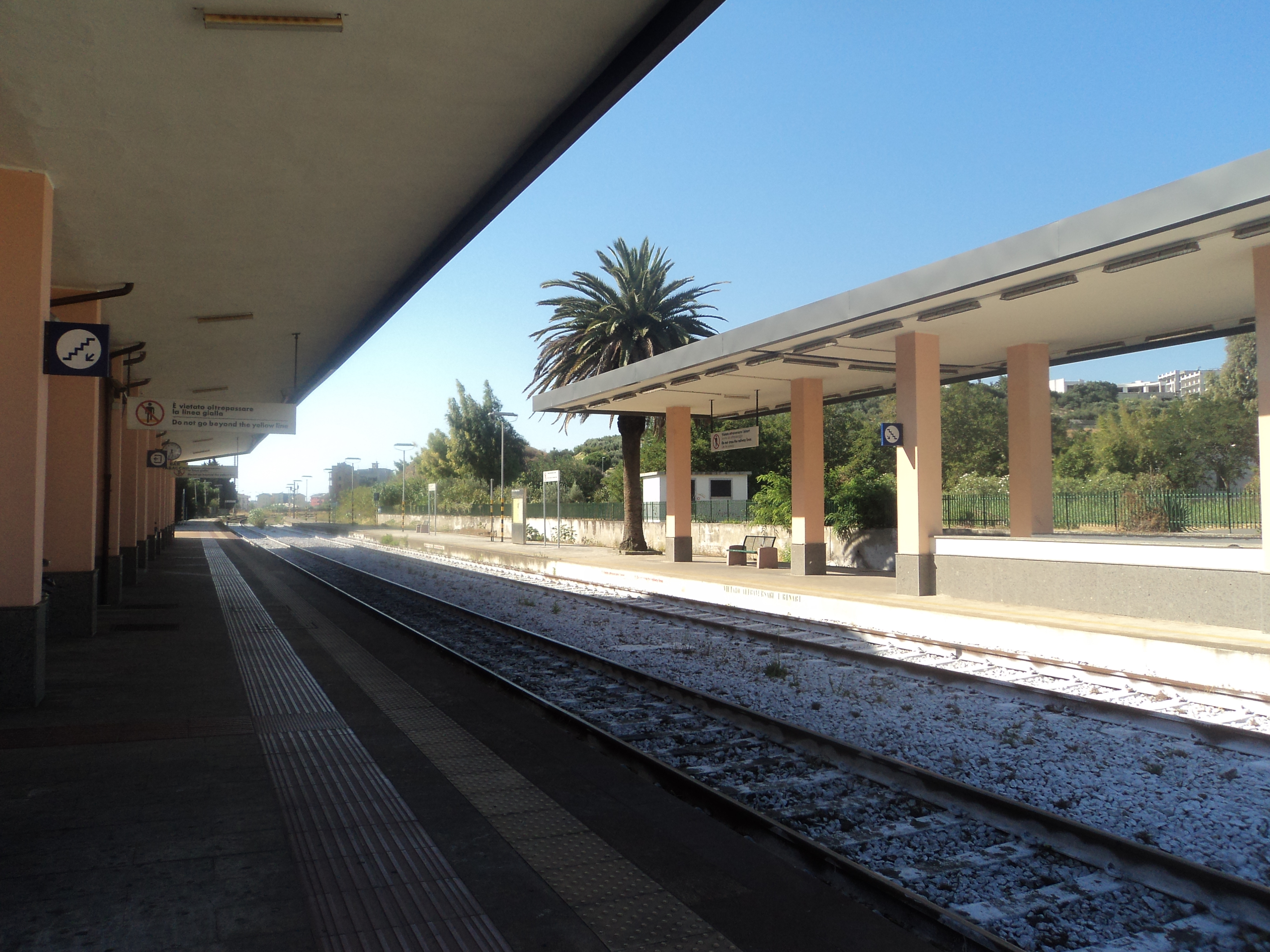 Soverato train station